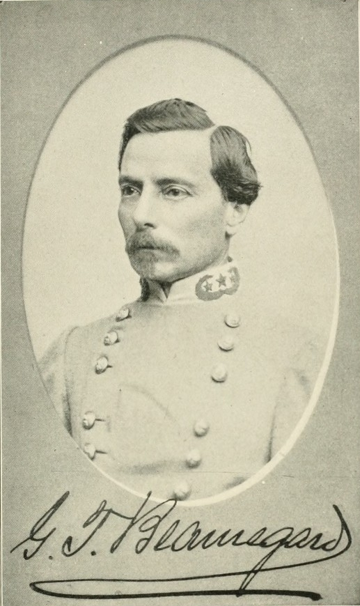 Confederate General Pierre Gustave Toutant Beauregard